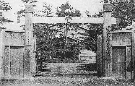 Moralogy College in Kashiwa(present-day "Reitaku University")